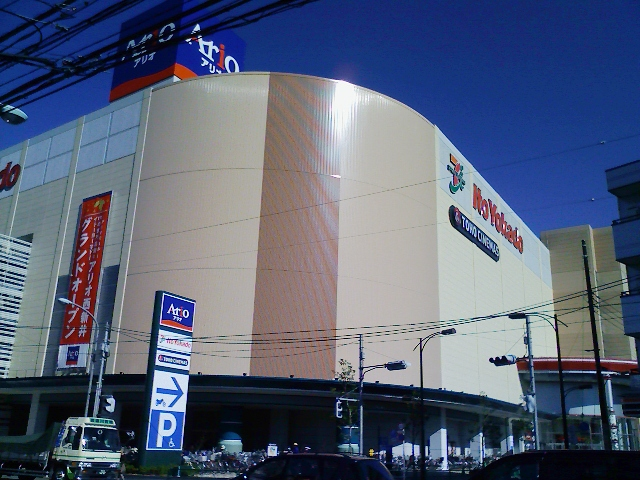 Ario Nishiarai , - in Adachi-ku, Tokyo